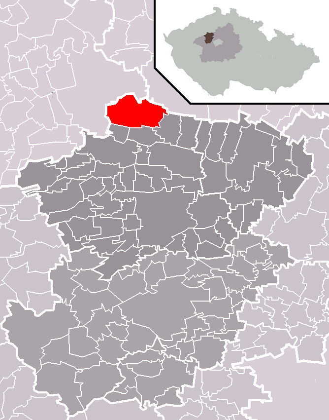 Location of Vraný market town within Kladno District and administrative area of Slaný as a Municipality with Extended Competence.